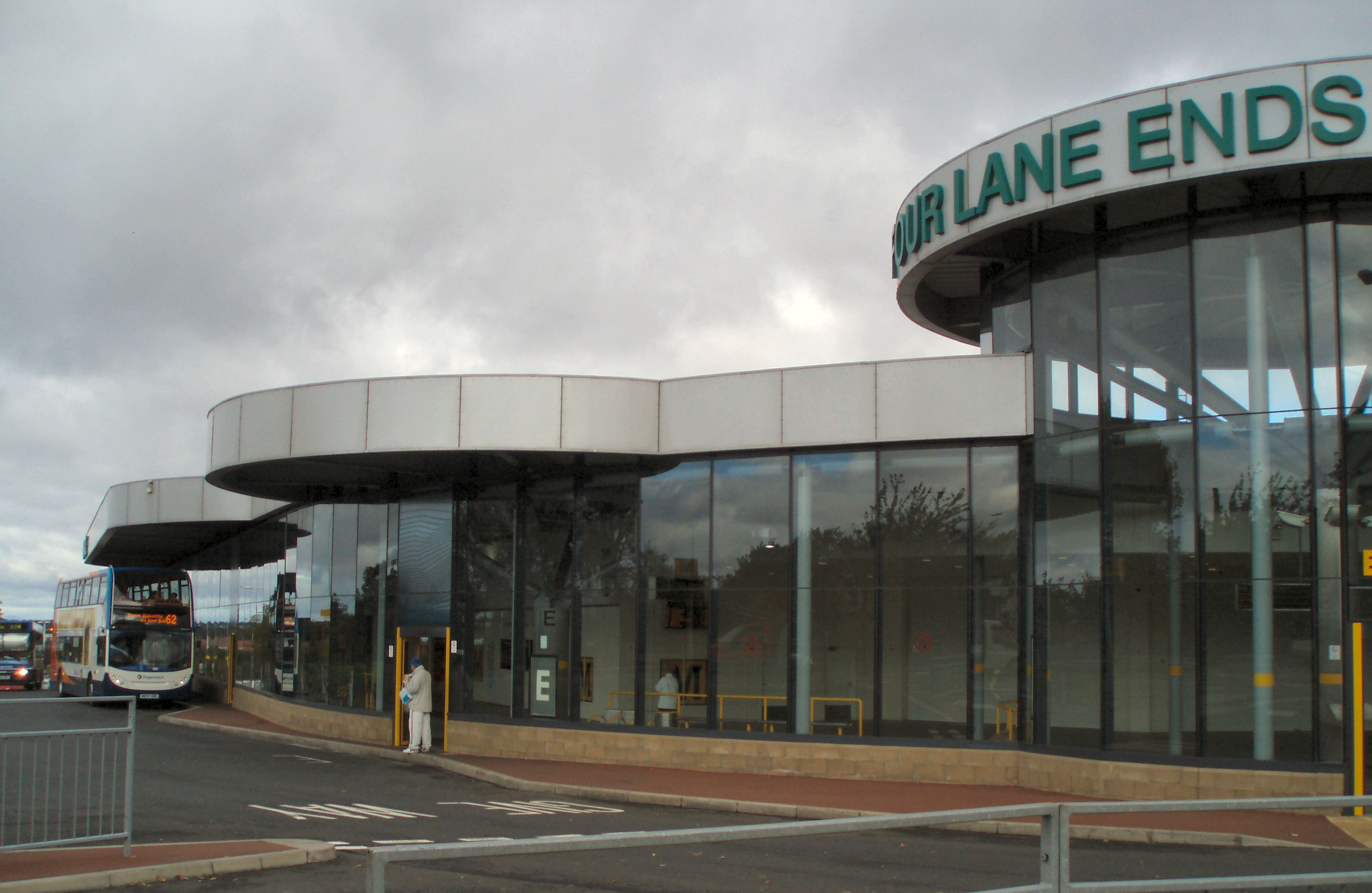 The Four Lane Ends Interchange on the Newcastle upon Tyne/North Tyneside border. The view north along the bus stop gates along the west side of the interchange building.